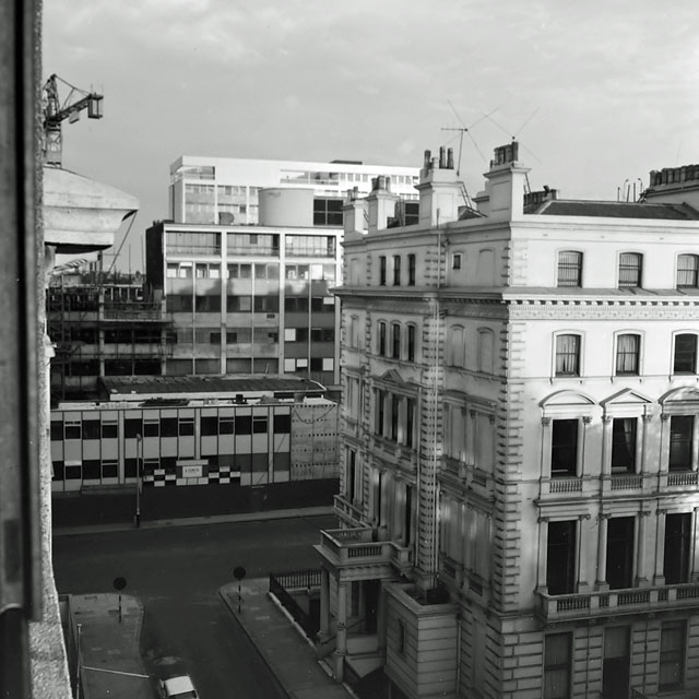 City & Guilds College, 1964 This Engineering part of Imperial College was still partly being rebuilt at the time. Viewed from the Imperial College South Side (of Princes Gardens) halls of residence across Exhibition Road. The viewpoint building was completed in 1963 and has since been demolished and replaced. The old building at right was not part of the campus.